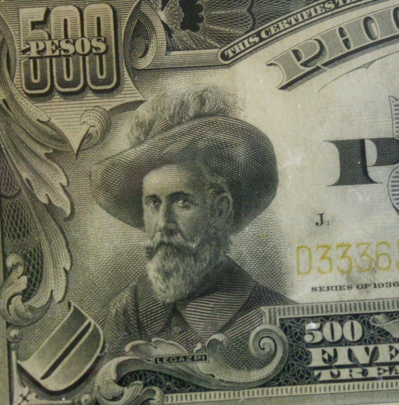 Legazpi in 500 peso banknote, year 1906